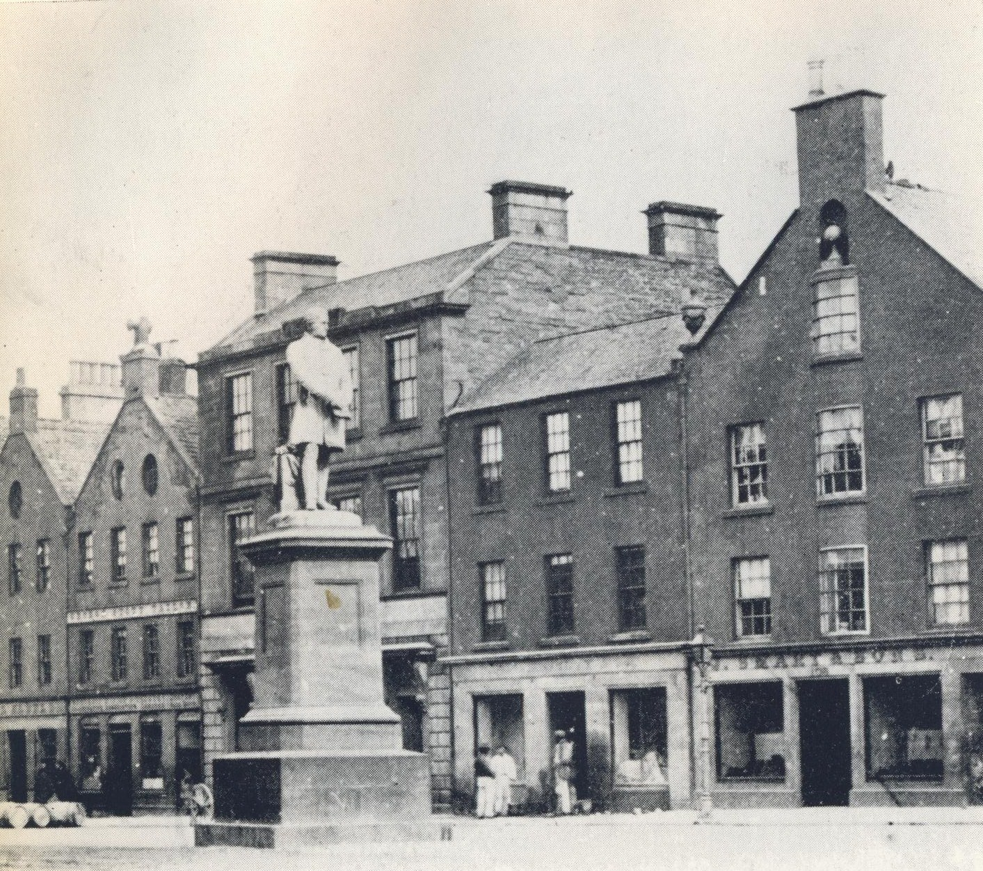 Photograph shows High Street, Montrose, Angus, Scotland during the 1870s. The statue of Joseph Hume is shown in the foreground.